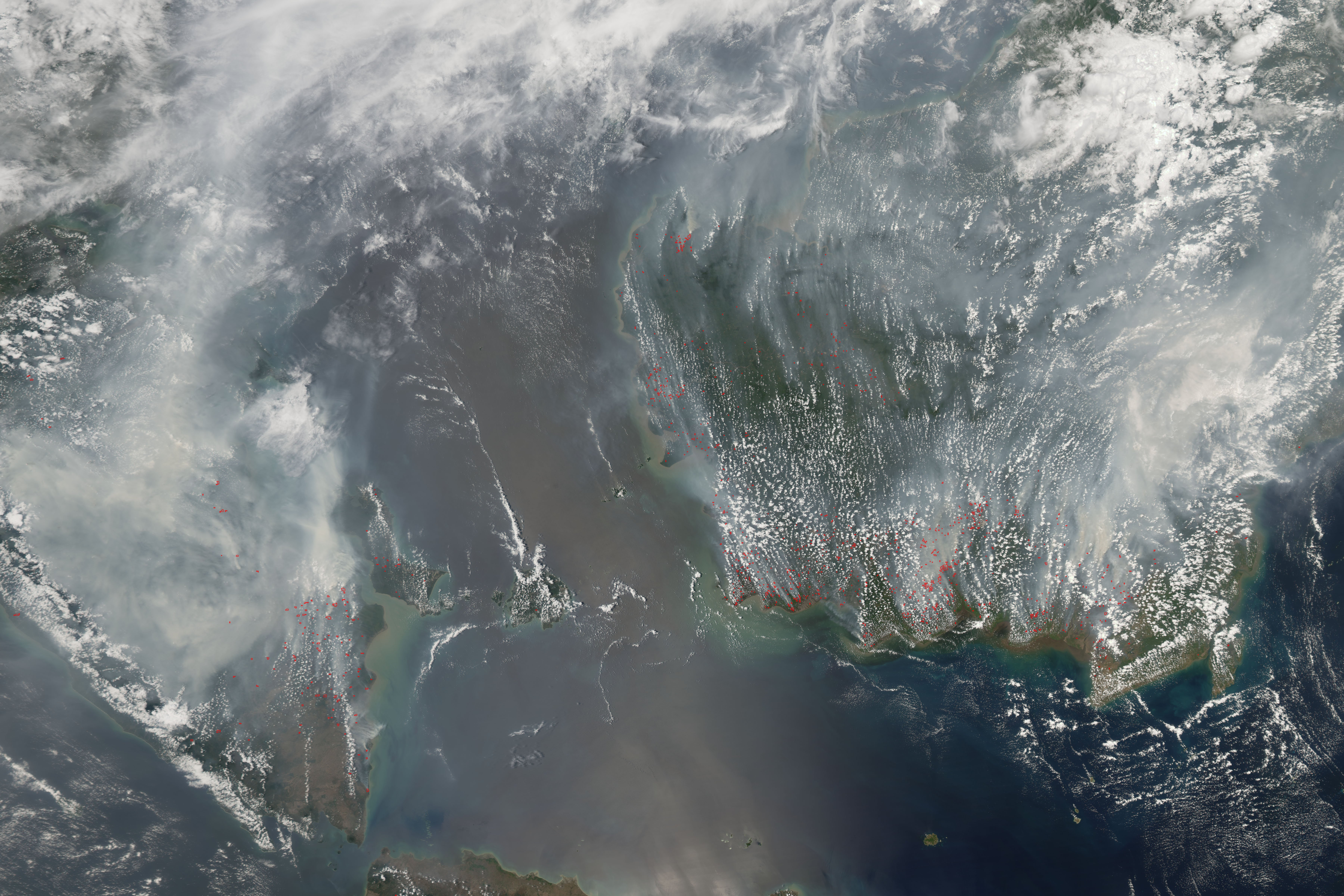 Fires on Borneo and Sumatra Smoke from agricultural and forest fires burning on Sumatra (left) and Borneo (right) in late September and early October 2006 blanketed a wide region with smoke that interrupted air and highway travel and pushed air quality to unhealthy levels. This image from the Moderate Resolution Imaging Spectroradiometer (MODIS) on NASA’s Aqua satellite on October 1, 2006, shows places where MODIS detected actively burning fires marked in red. Smoke spreads in a gray-white pall to the north. Despite a governmental ban on open burning, seasonal fires continue to occur on the Indonesian islands each year, peaking in the dry season of late summer and early fall. Slash-and-burn deforestation to clear land for farming or other agriculture still takes place, and fires escape from already cleared land into adjacent forest. The swampy forests of the low-lying parts of these islands sit on thick layers of peat (un-decayed vegetation), which is extremely flammable when it dries out. The peat is exceptionally smoky when it burns.